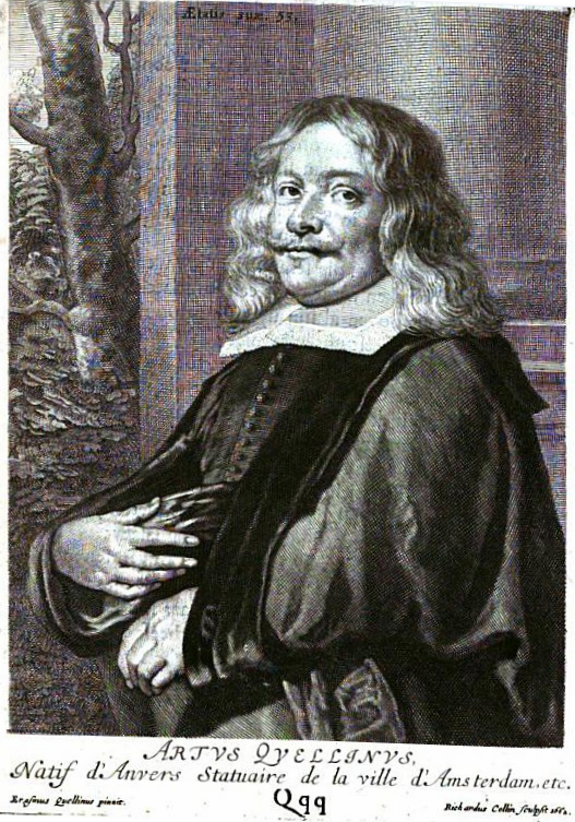 Portrait of Artus Quellinus I in Cornelis de Bie's Gulden Cabinet.